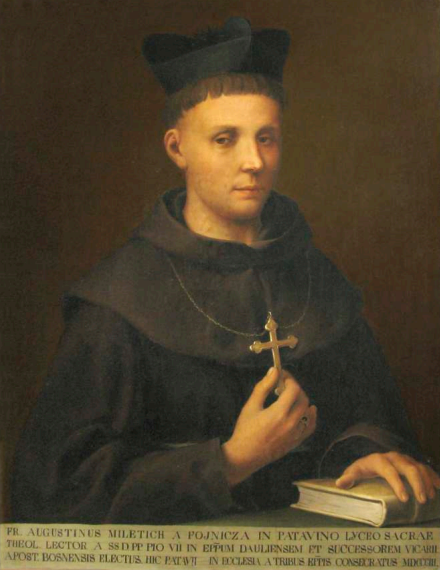 Portrait of Bishop Augustin Miletić Fra Augustin Miletić (1763 - 1831) was a Franciscan friar and Apostolic Vicar from Bosnia and Herzegovina. The portrait shows Bishop Miletić in half-figure against a dark background. The bishop is wearing a habit, with a black cap on his head and a gold cross around his neck, which he is holding in his right hand. He is holding a book in his left hand.